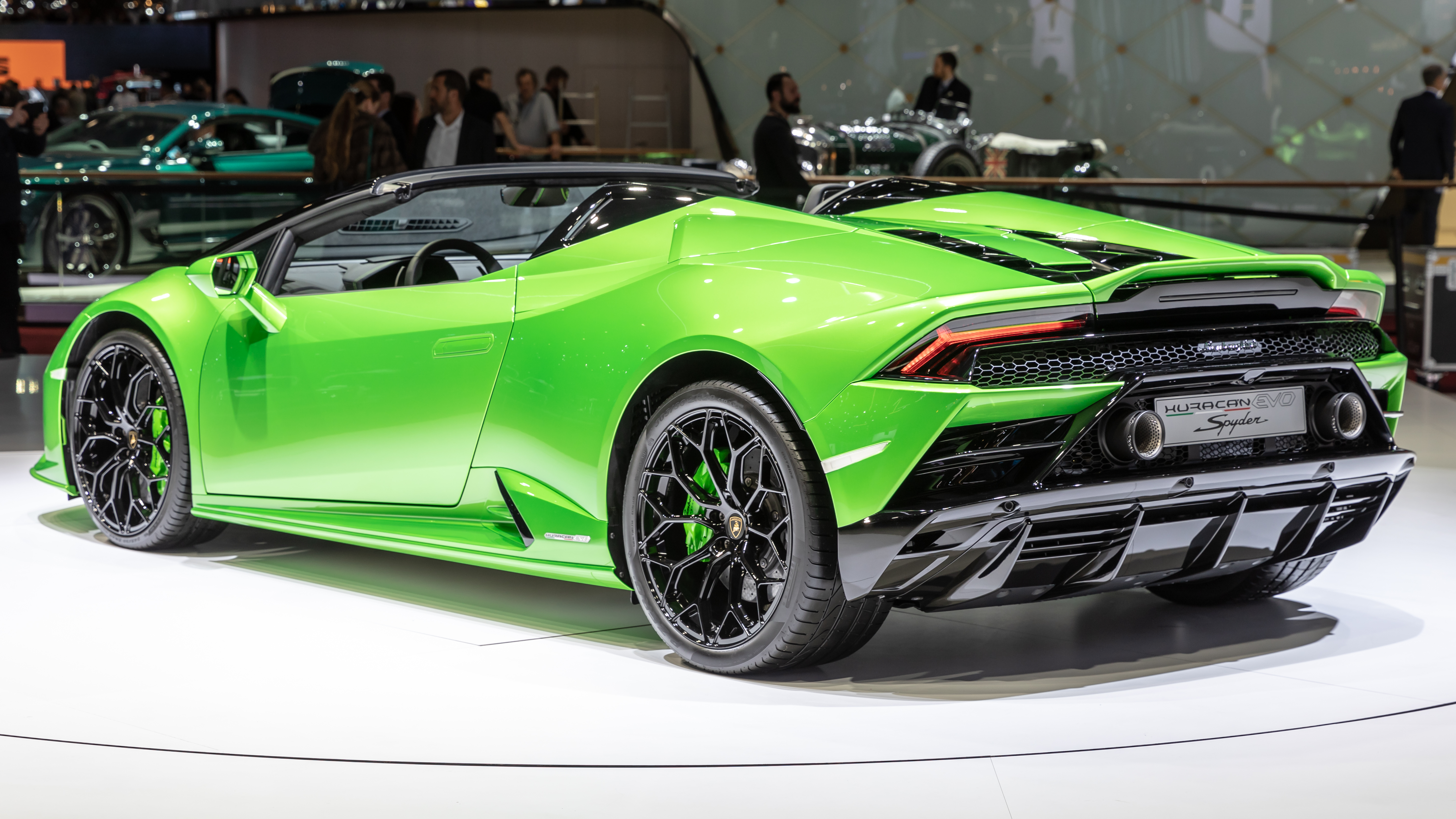 Lamborghini Huracan Evo Spyder at Geneva International Motor Show 2019, Le Grand-Saconnex